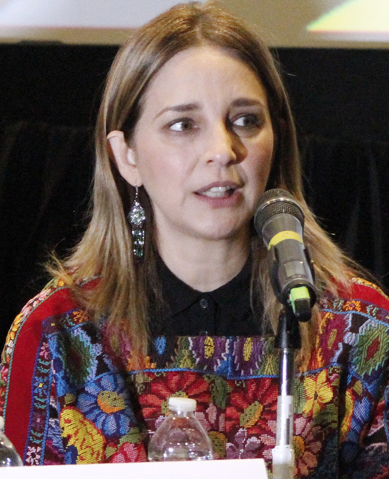 Jueves 15 de febrero de 2018.En la Cineteca Nacional se realizó la conferencia de prensa, donde hablaron del Shorts México 13 , Festival Internacional de Cortometrajes de México, con la prescencia de Rafa Lara, Claudia Ramírez, Jorge Magaña, Diana Bracho y Axel Arenas.Fotografía: Joanna Enríquez/ Secretaría de Cultura CDMX.